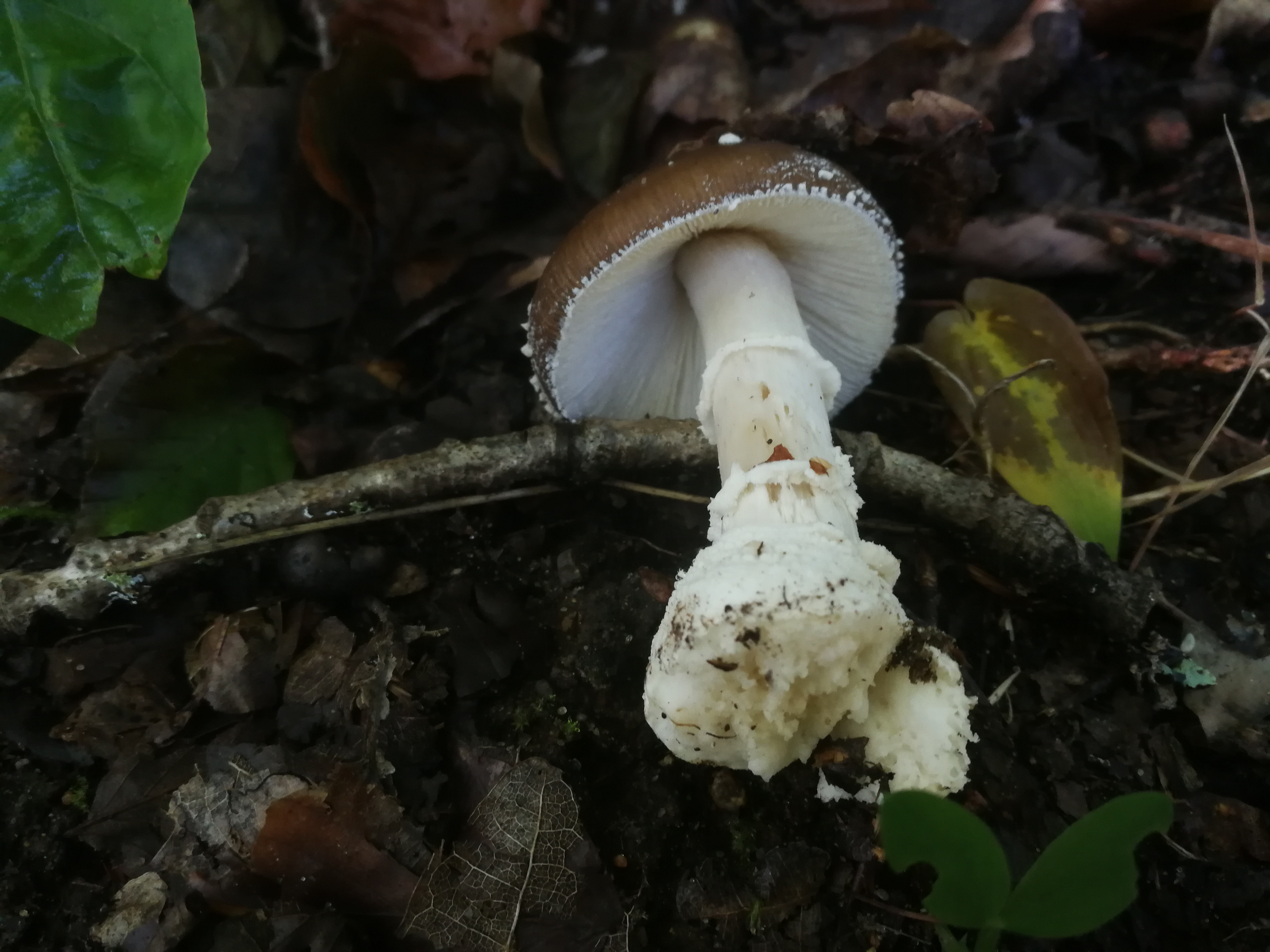 Amanita pantherina